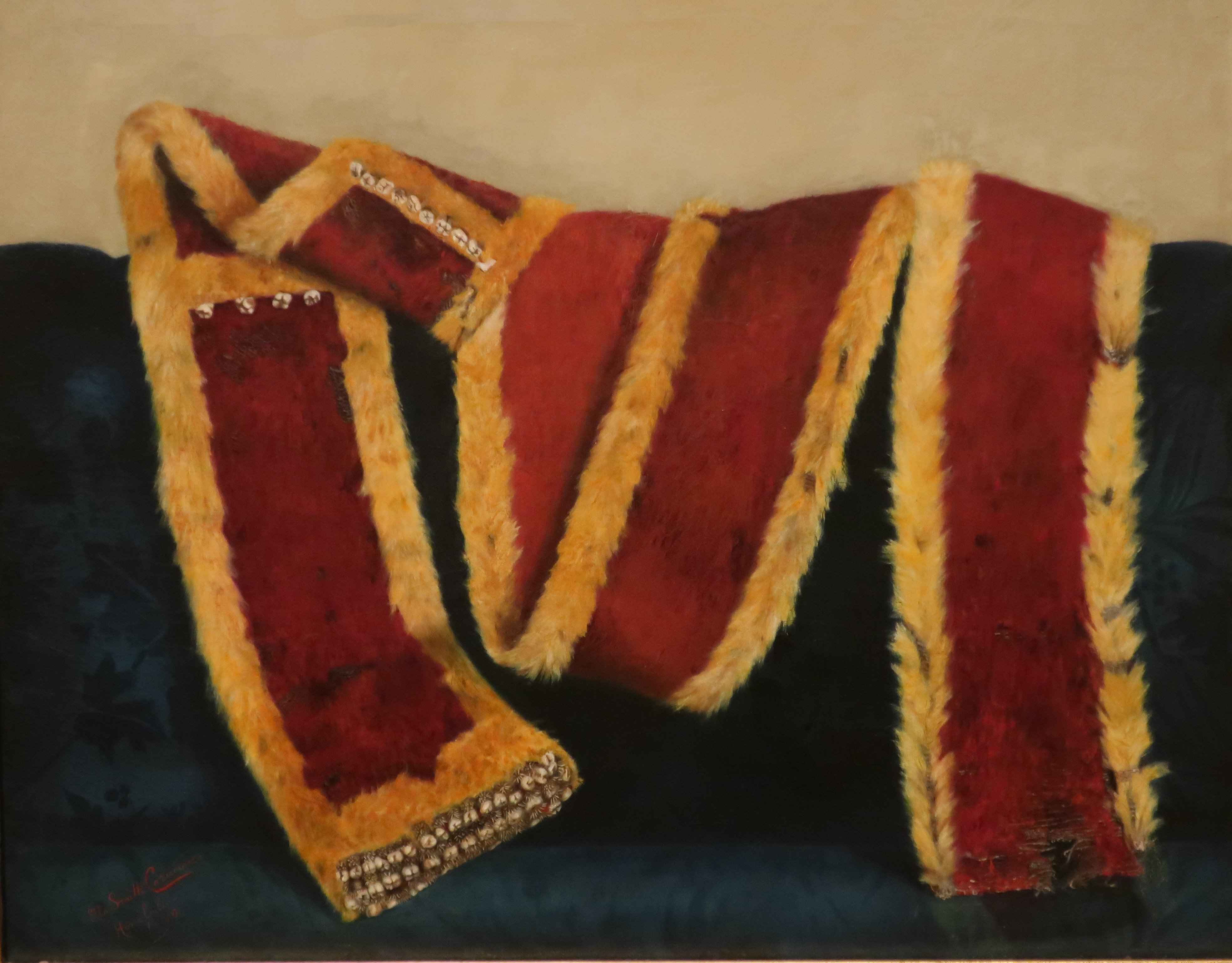 The Royal Feather Cordon of King Liloa of Hawaii by Ella Smith Corwine, c. 1890, oil on canvas, 24 x 30 in., Bishop Museum. Līloa was a legendary ruler of the island of Hawaii.